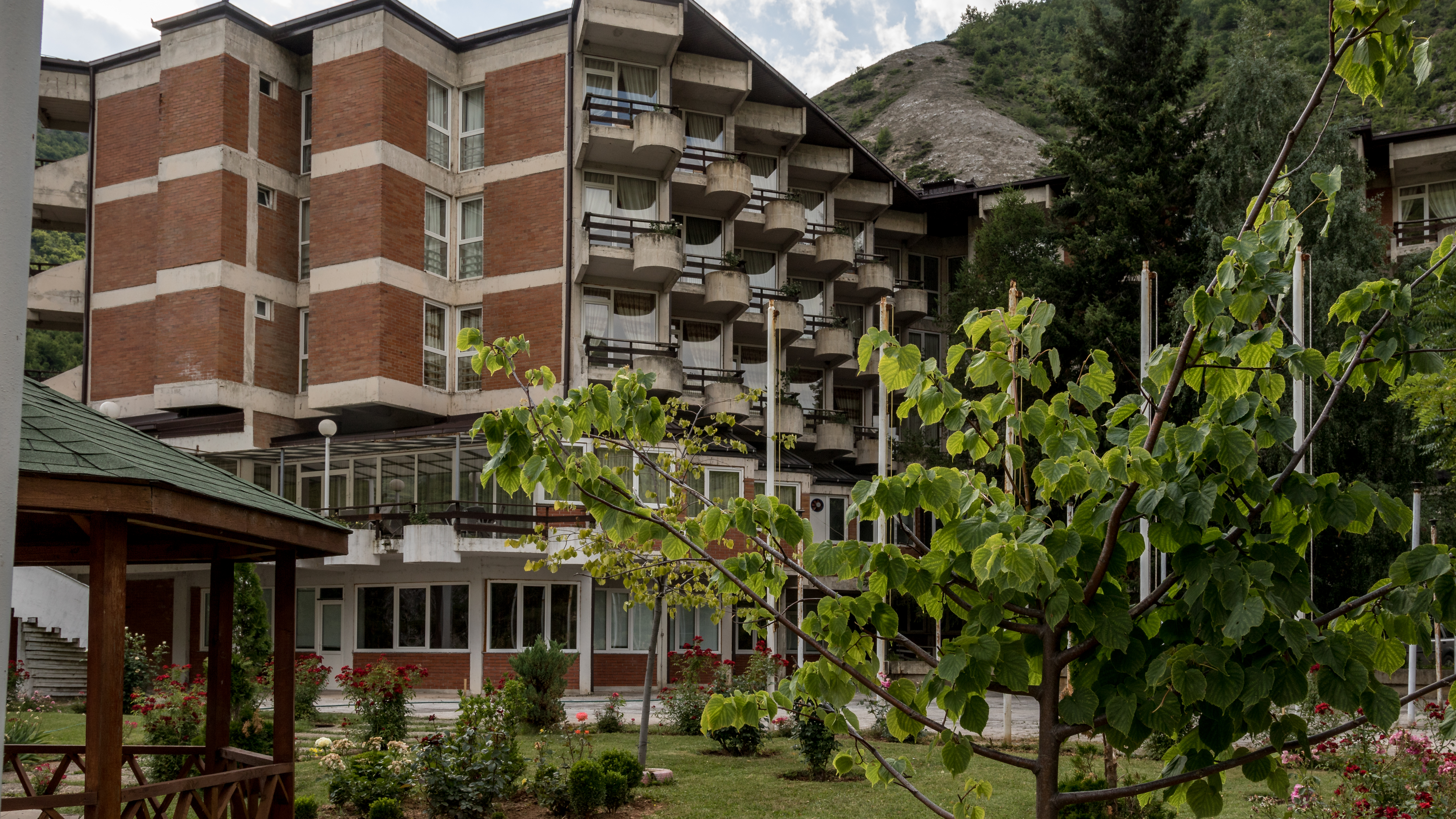 View of the Debar Spa